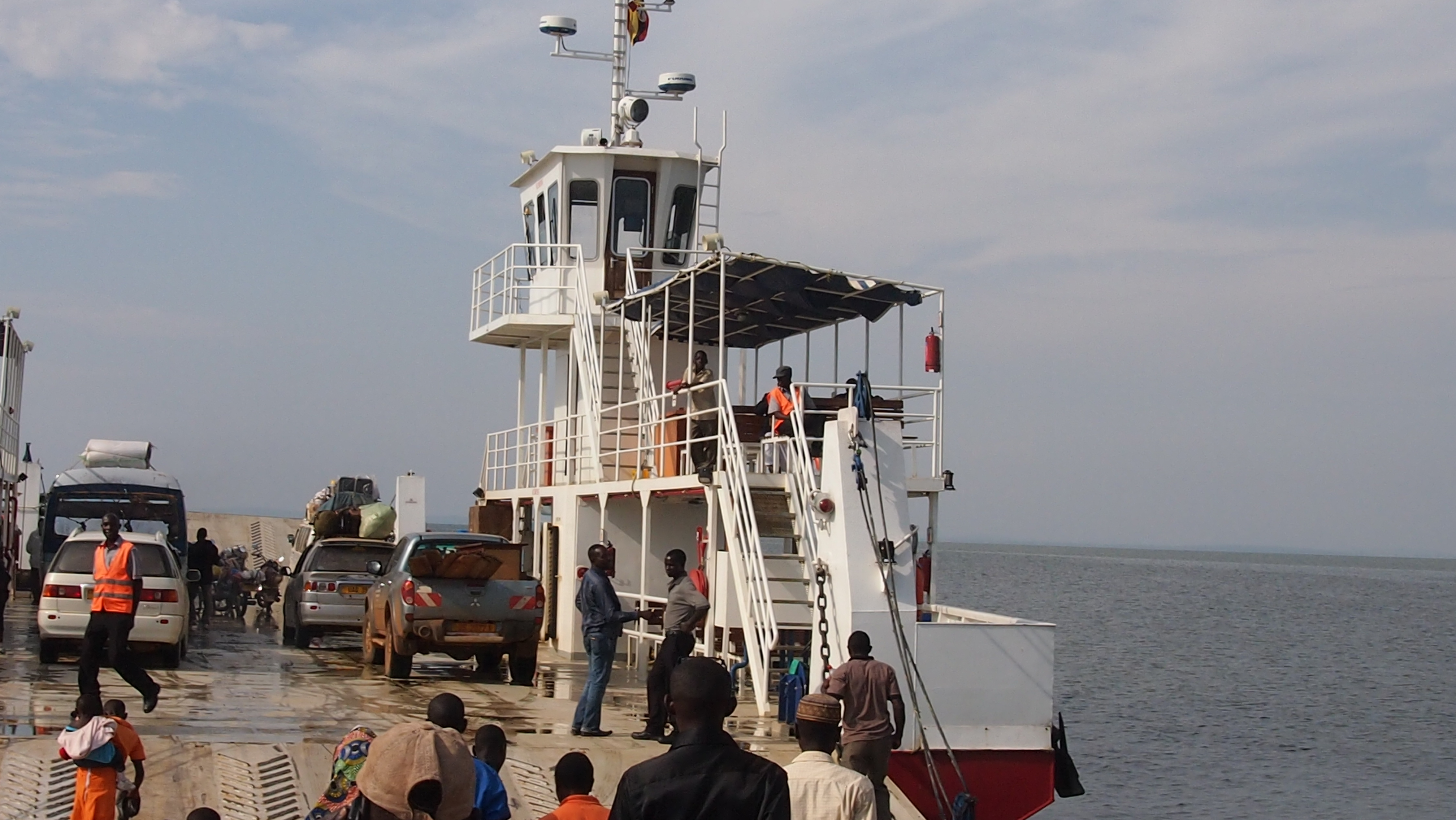 MV Pearl